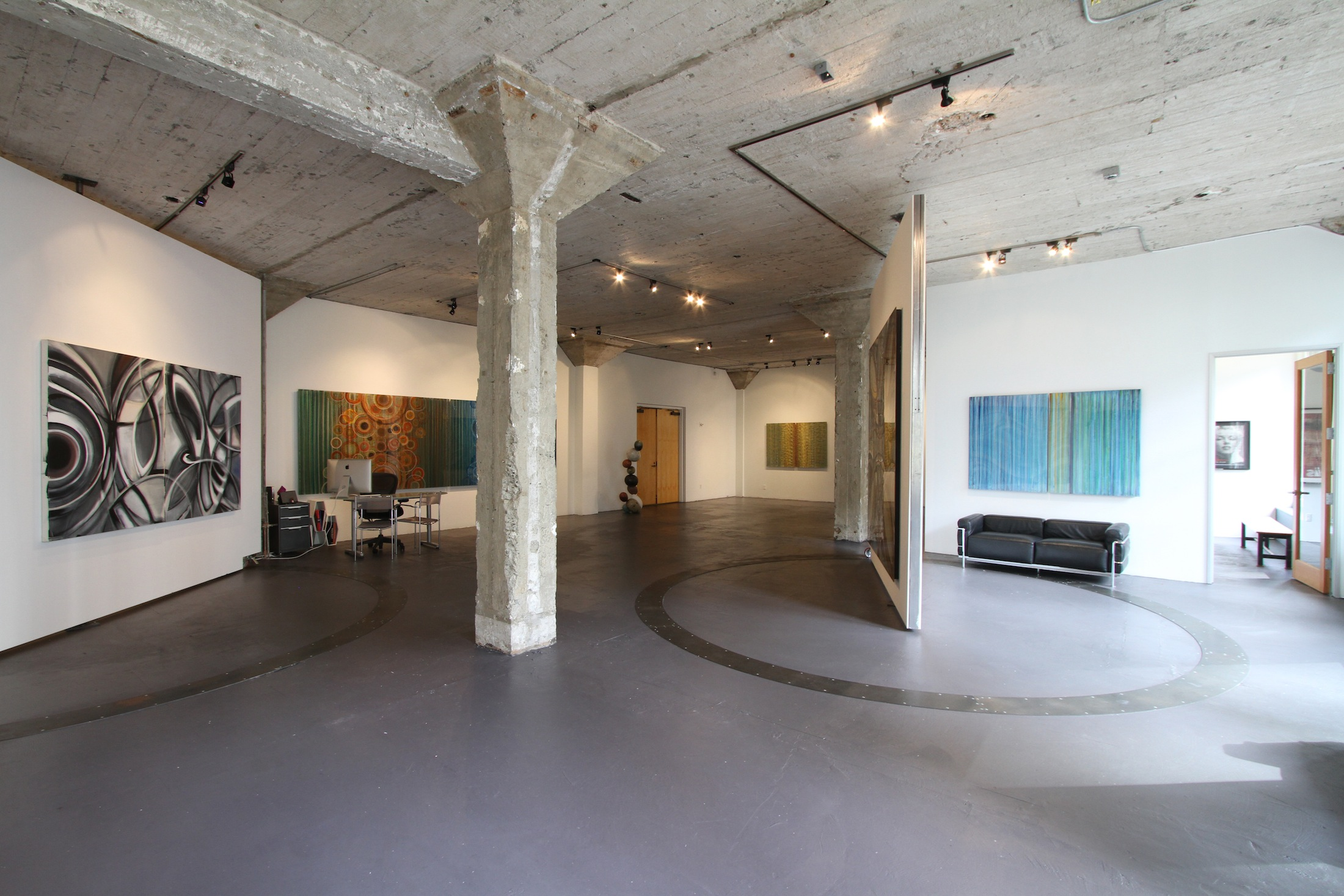 McLoughlin Gallery Photo